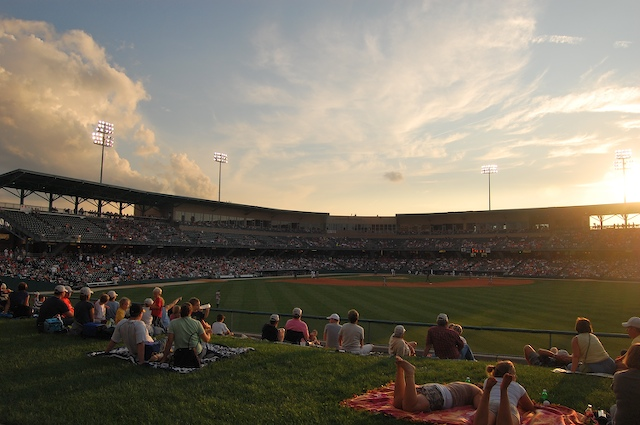 Sunset during an Indianapolis Indians baseball game, Victory Field, Indianapolis, Indiana.